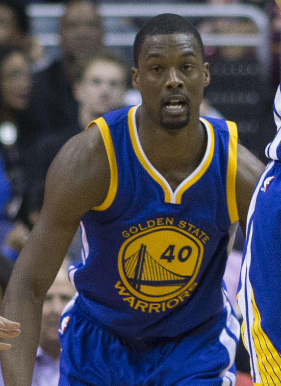 Harrison Barnes of the Golden State Warriors at the Washington Wizards 2/3/16